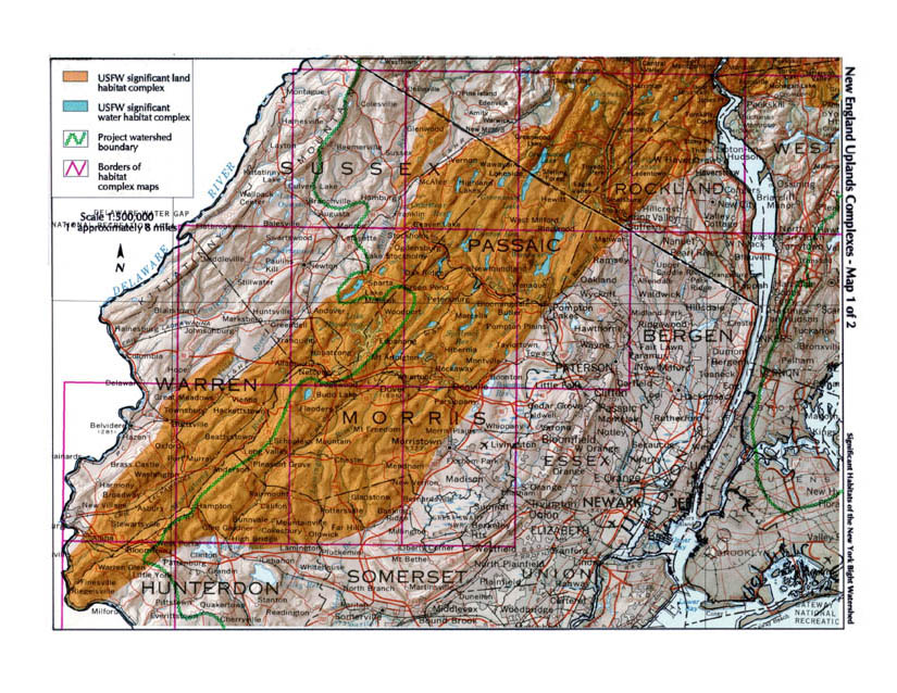 New York - New Jersey Highlands Habitat Complexes.